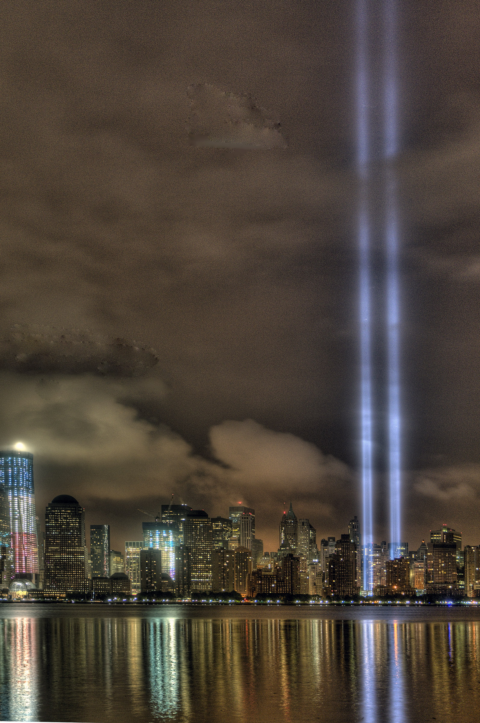 From Flickr: "A view of the World Trade Center 9-11-11 Tribute In Light from Jersey, City, NJ. The red, white & blue building on the left is the new World Trade Center building that's going up (formerly known as The Freedom Tower)."